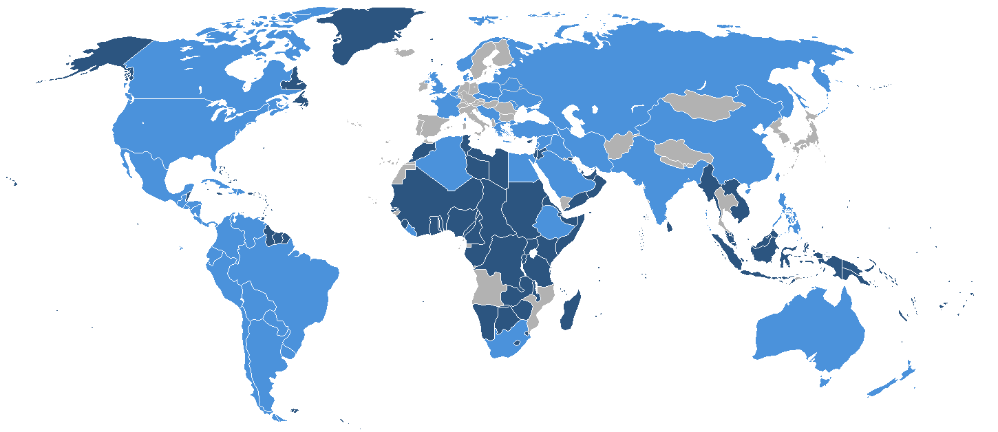 A map of United Nations member states at the end of 1945. Light blue are member states, Dark blue are colonies of member states, grey are non-member states